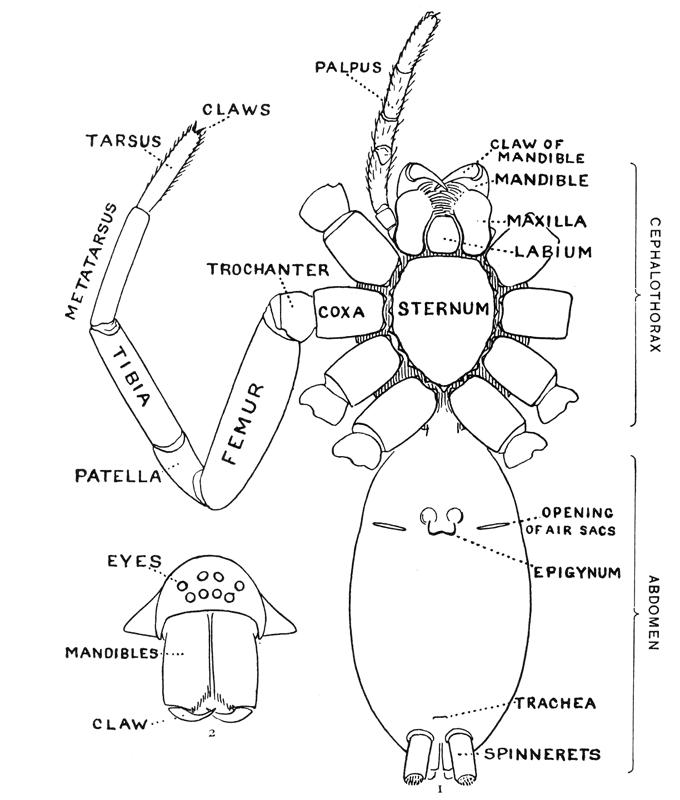 Diagrams of the underside and head of a spider showing the external anatomy